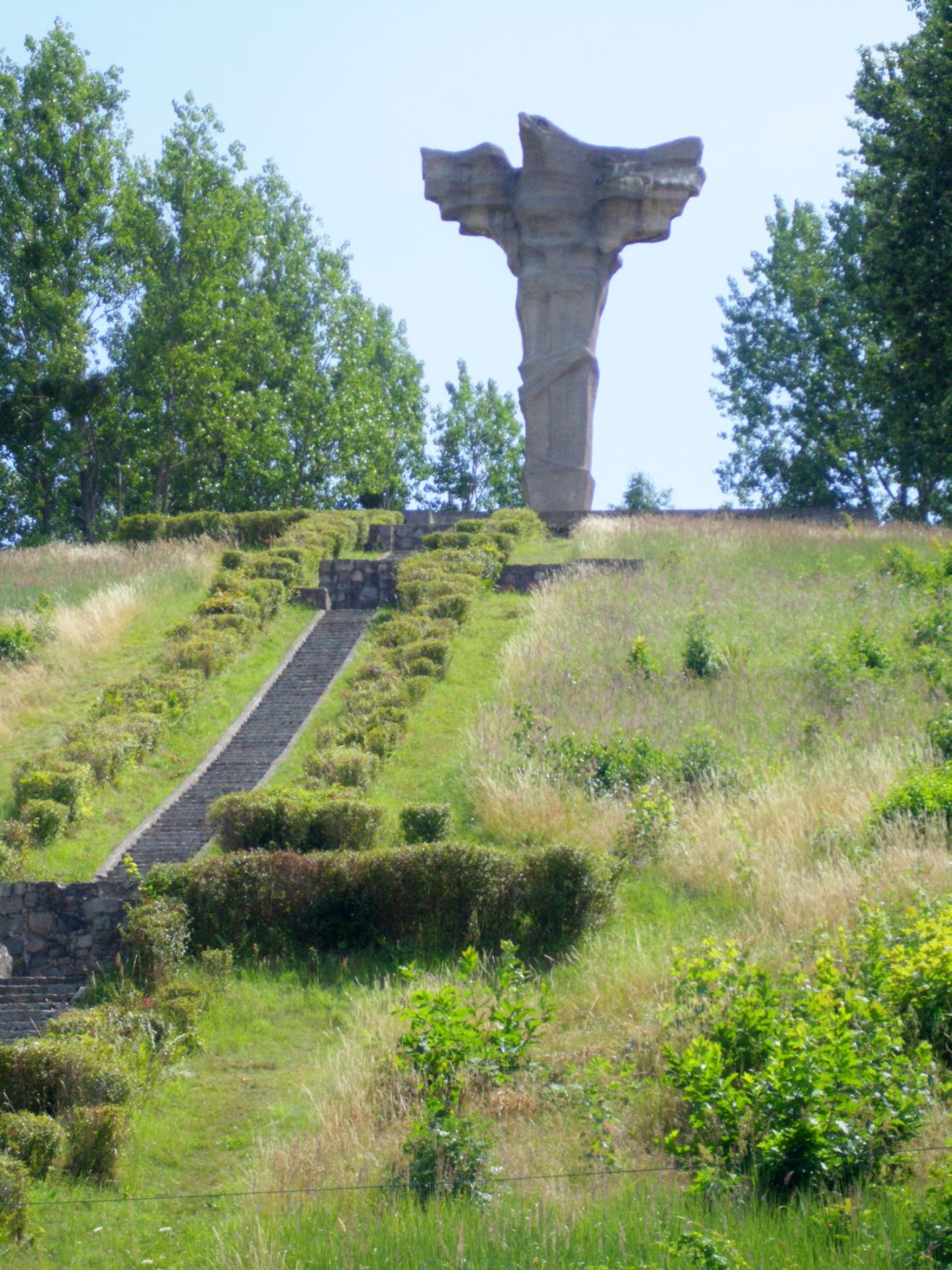 Monument to the Battle of Cedynia / Zehden (972) - The Polish Eagle on the Czcibor Hill